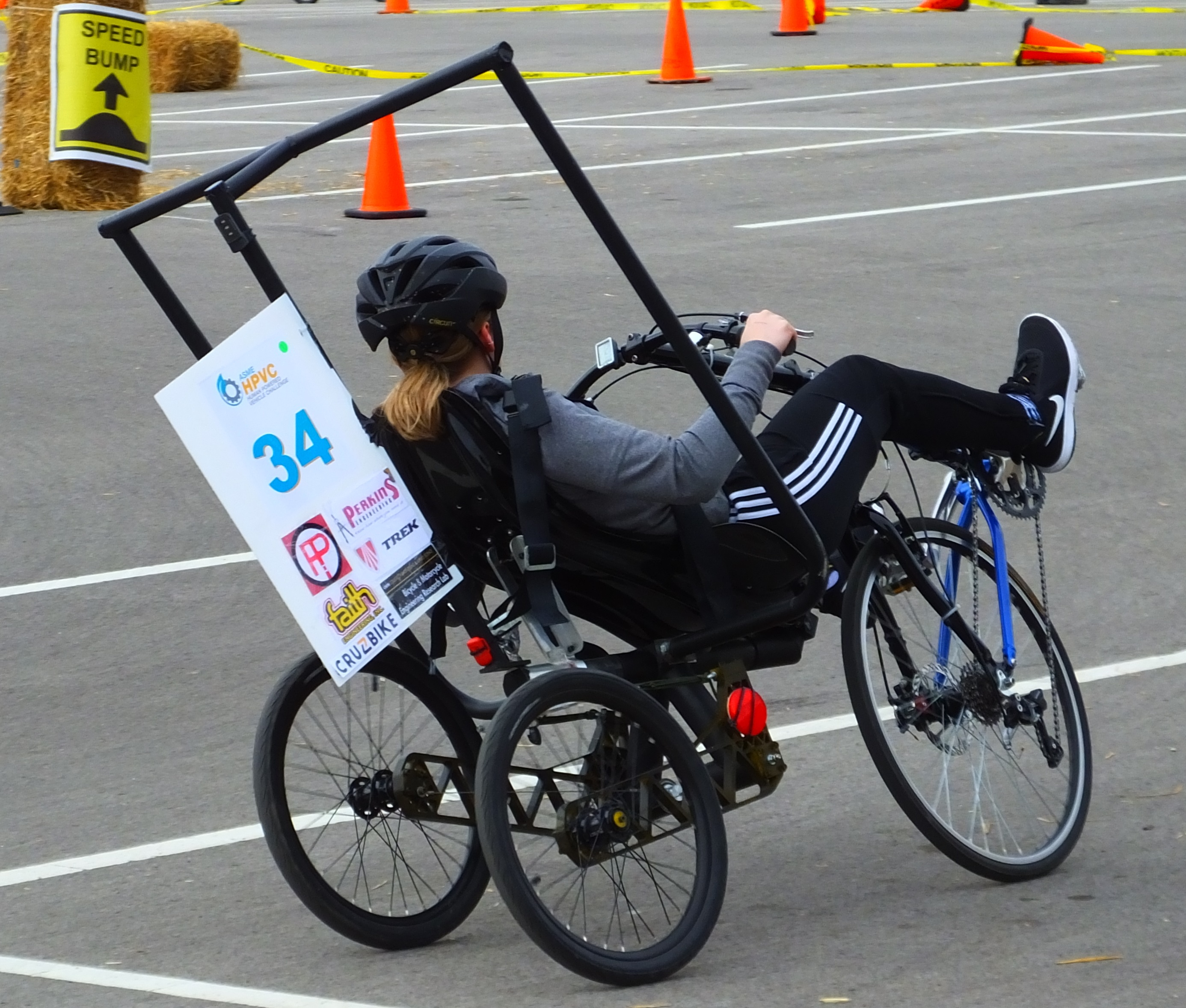 University of Wisconsin-Milwaukee narrow-track, tilting, recumbent trike, PantherTrike, at ASME HPVC North 2019